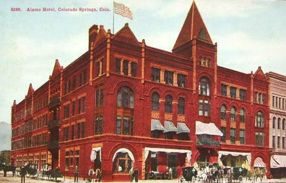 Postcard of the Alamo Hotel in Colorado Springs, Colorado.